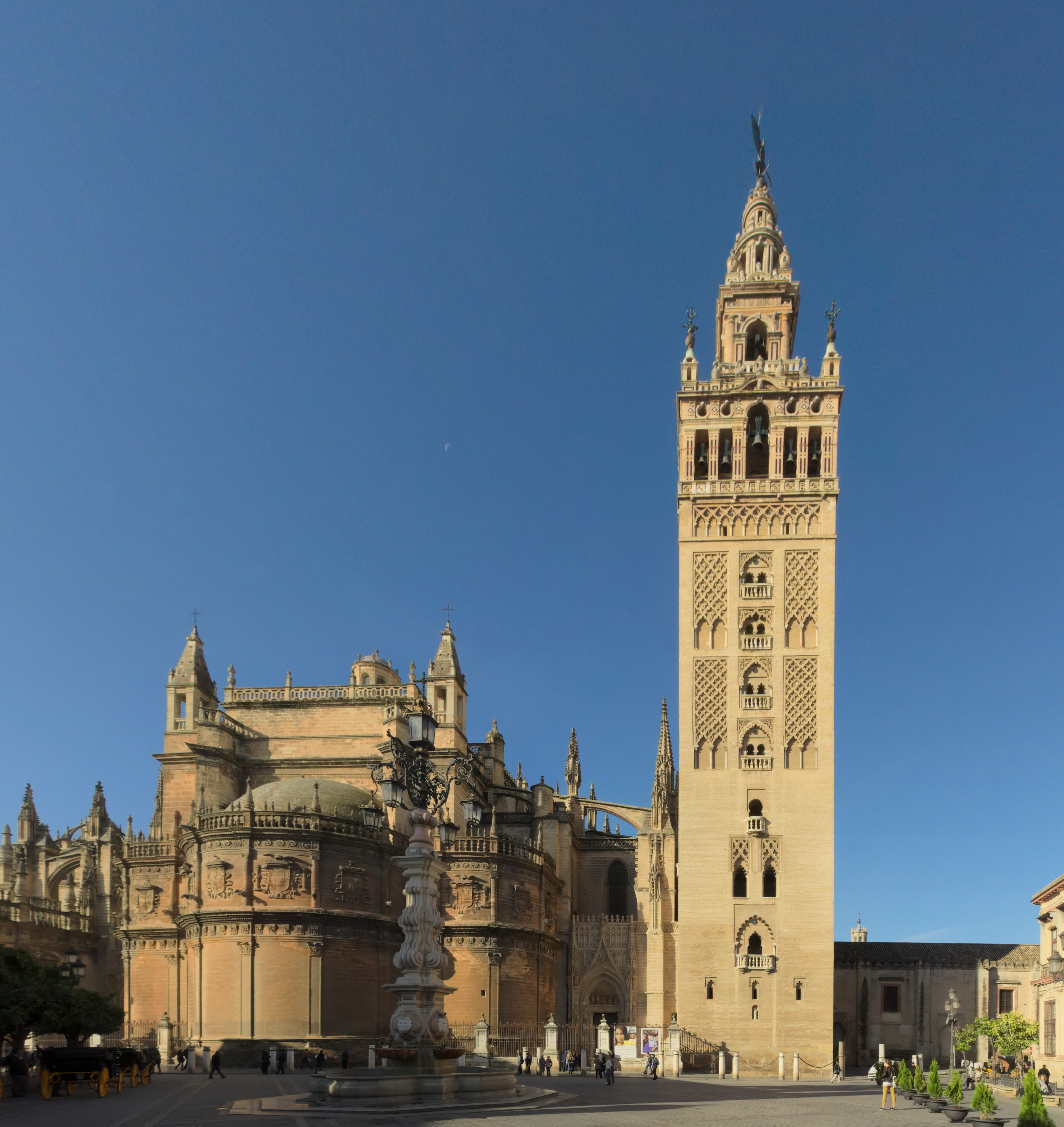 Sevilla Cathedral - Giralda